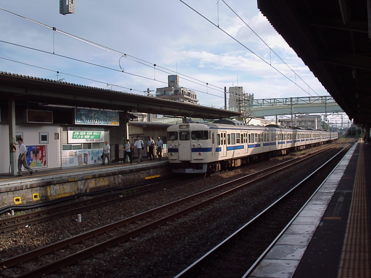 Fukkodaimae Station (formerly Chikuzen-Shingu Station)